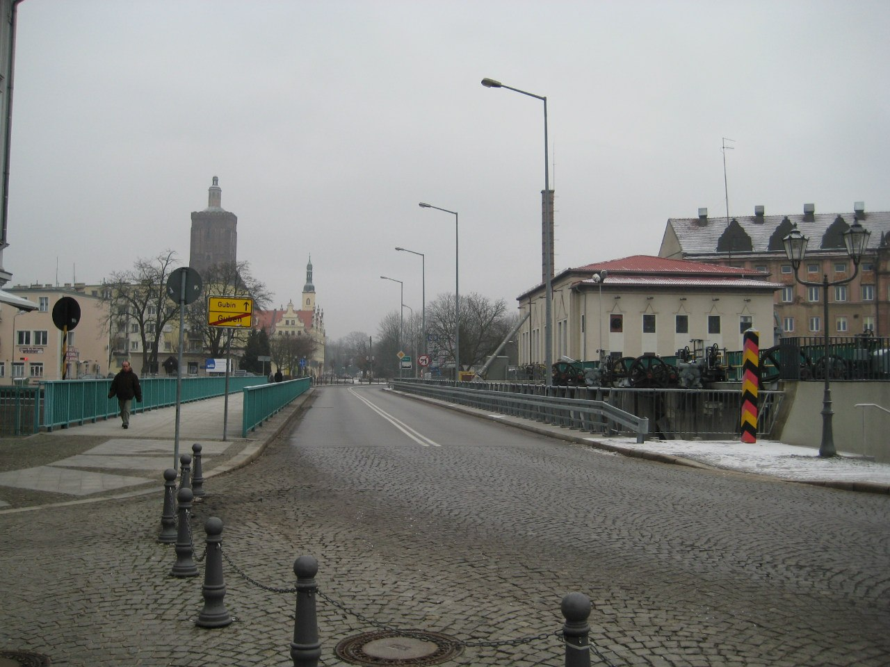 Border bridge over the Neisse between Guben (Germany) and Gubin (Poland). Alongside is the Neisse weir with water power plant.